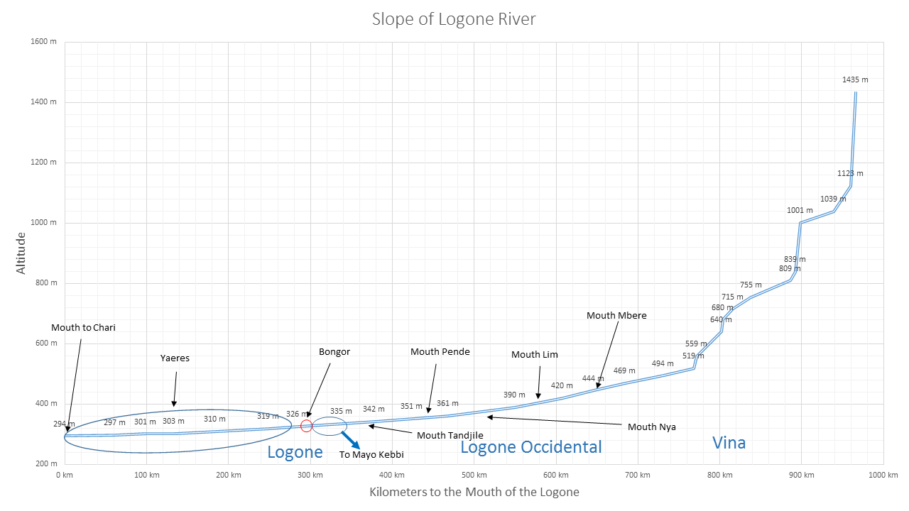 Slope of Logone river with Logone Occidental and Vina